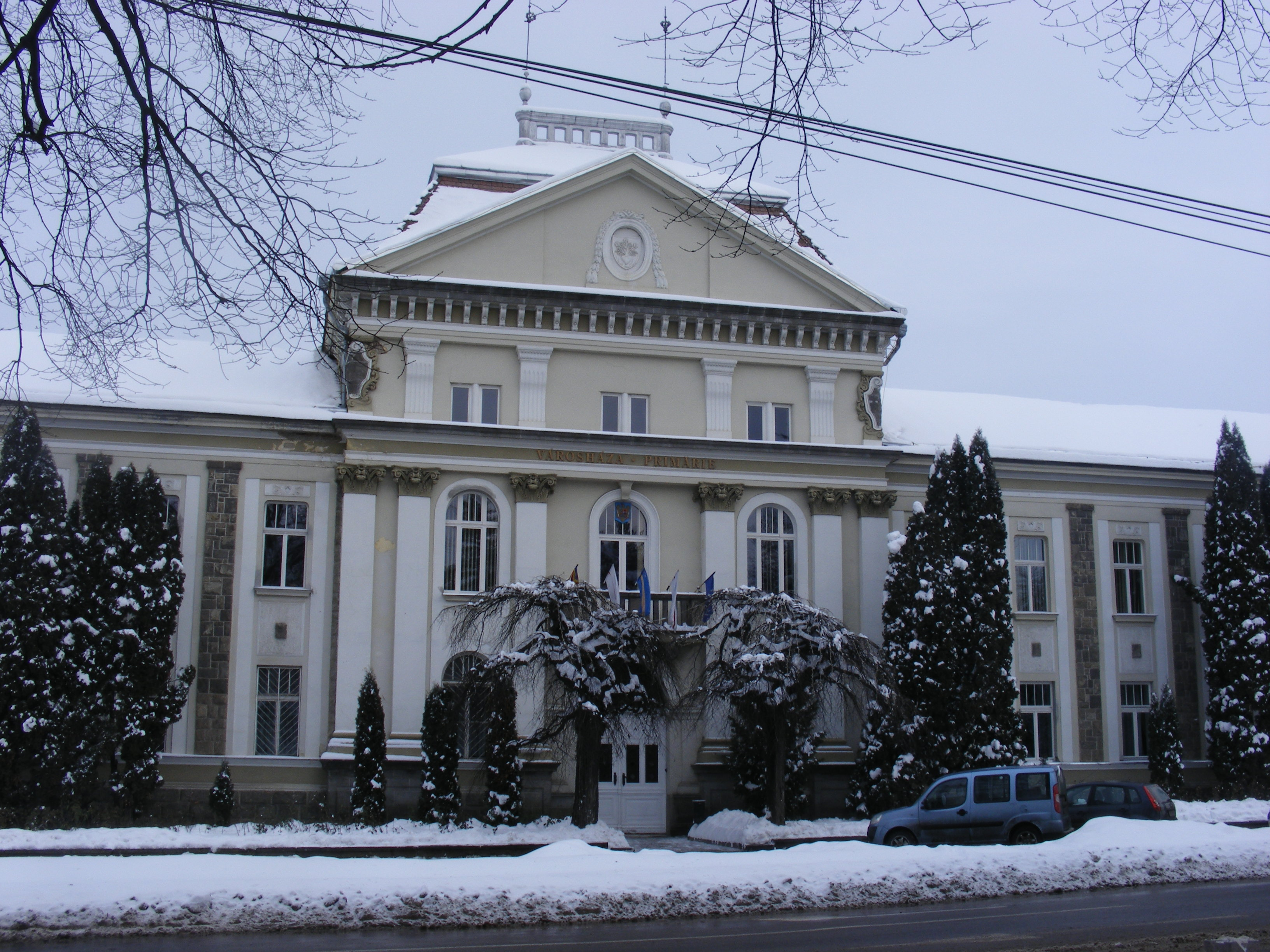 The city's house in Csíkszereda (Miercurea Ciuc)